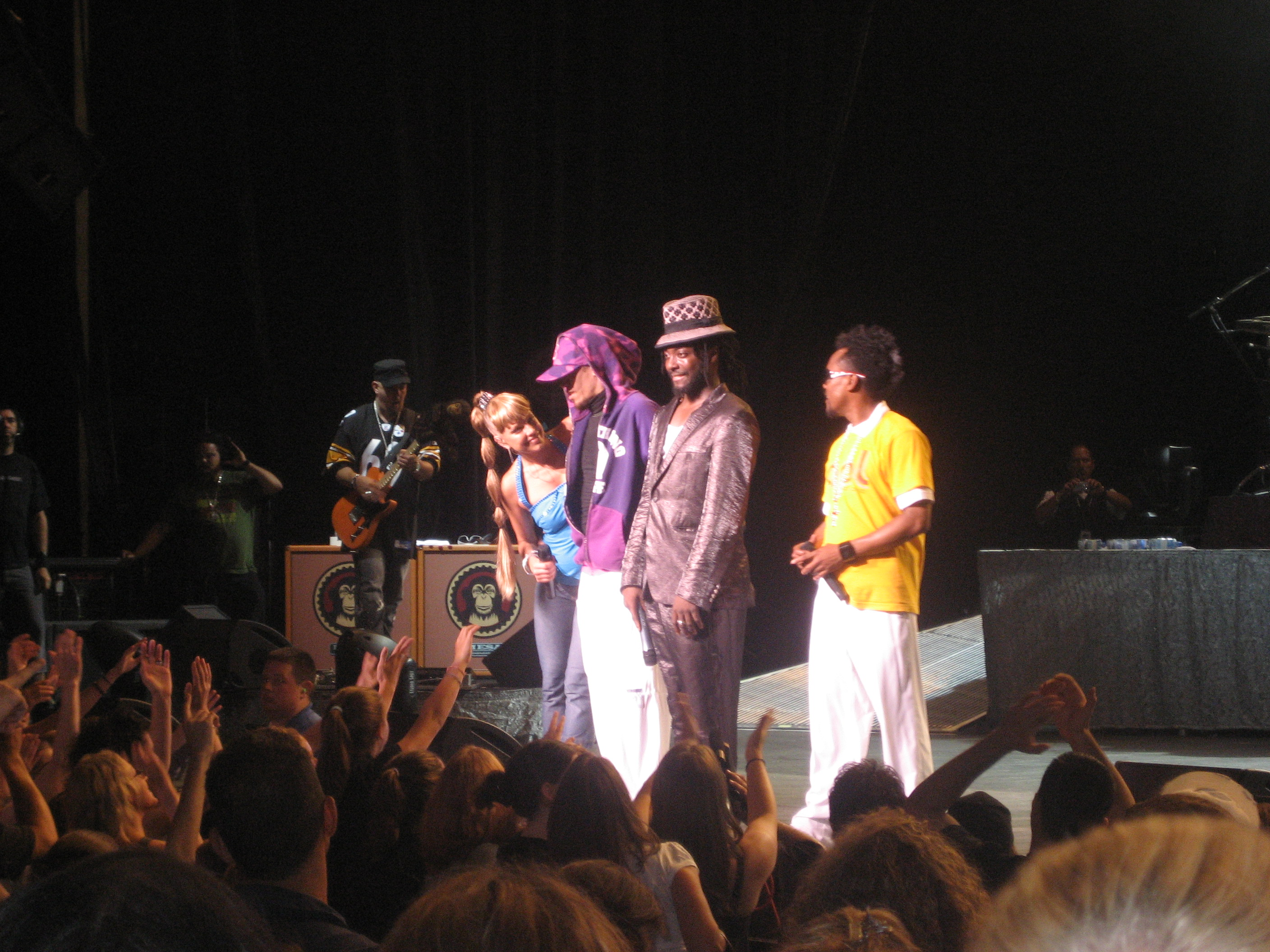 Black Eyed Peas performing.